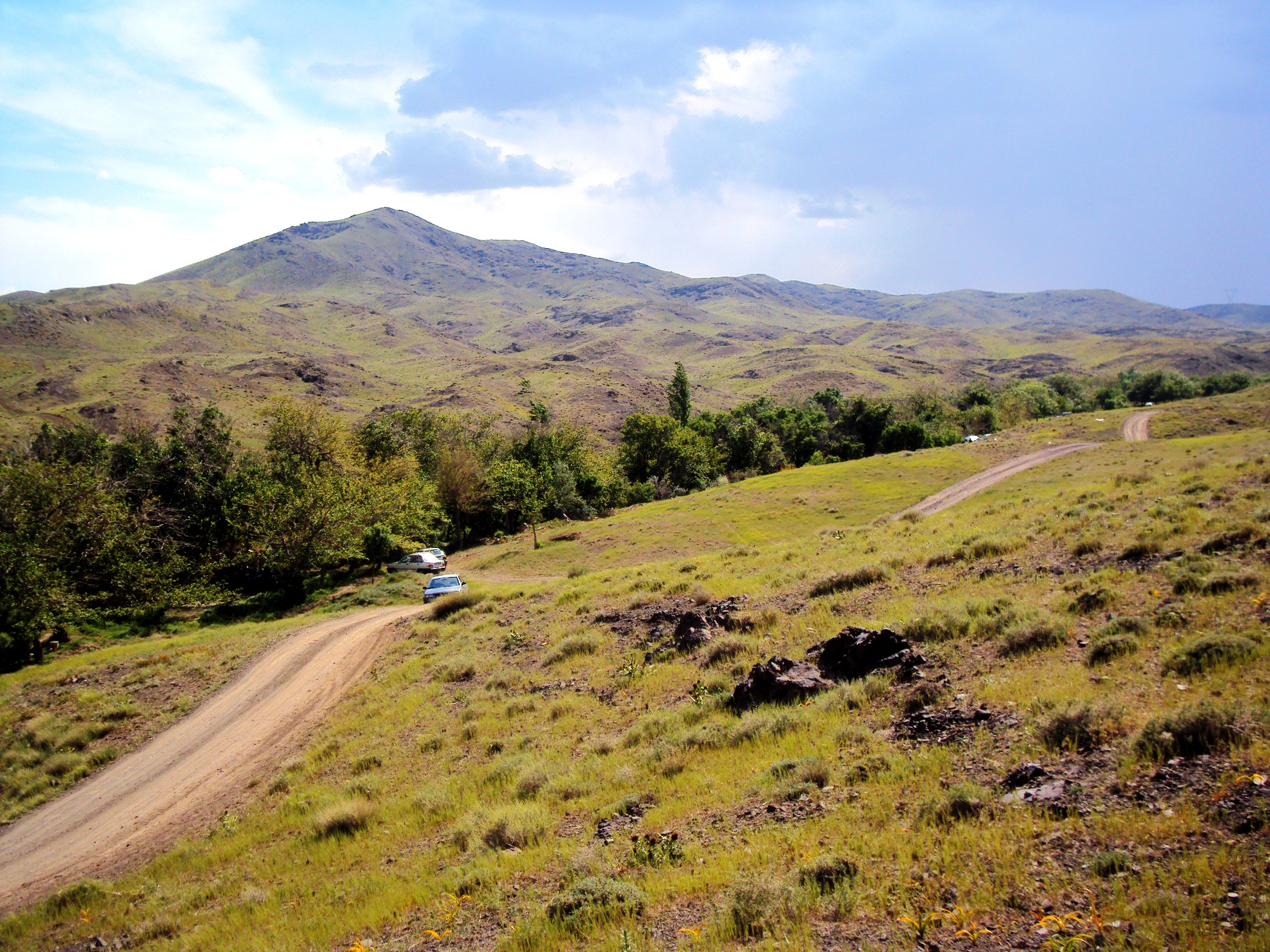 Senjegan Village Of Qom, Iran